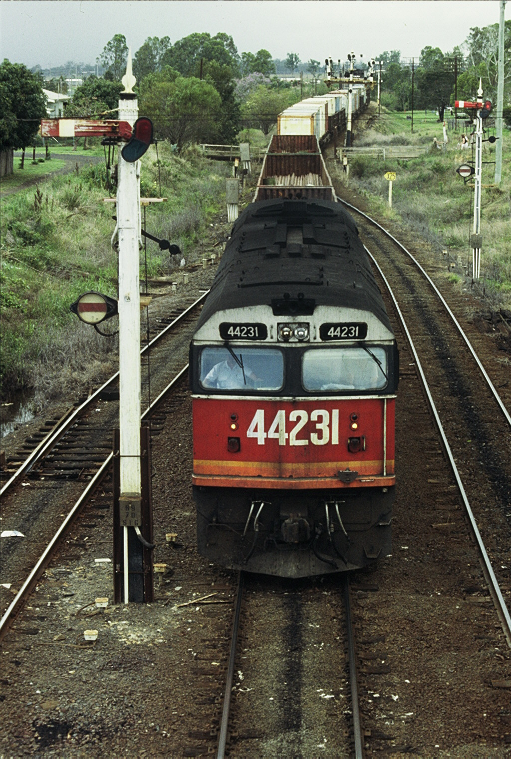 NSWR loco 44231 on a northbound goods train arriving at Casino, 1987